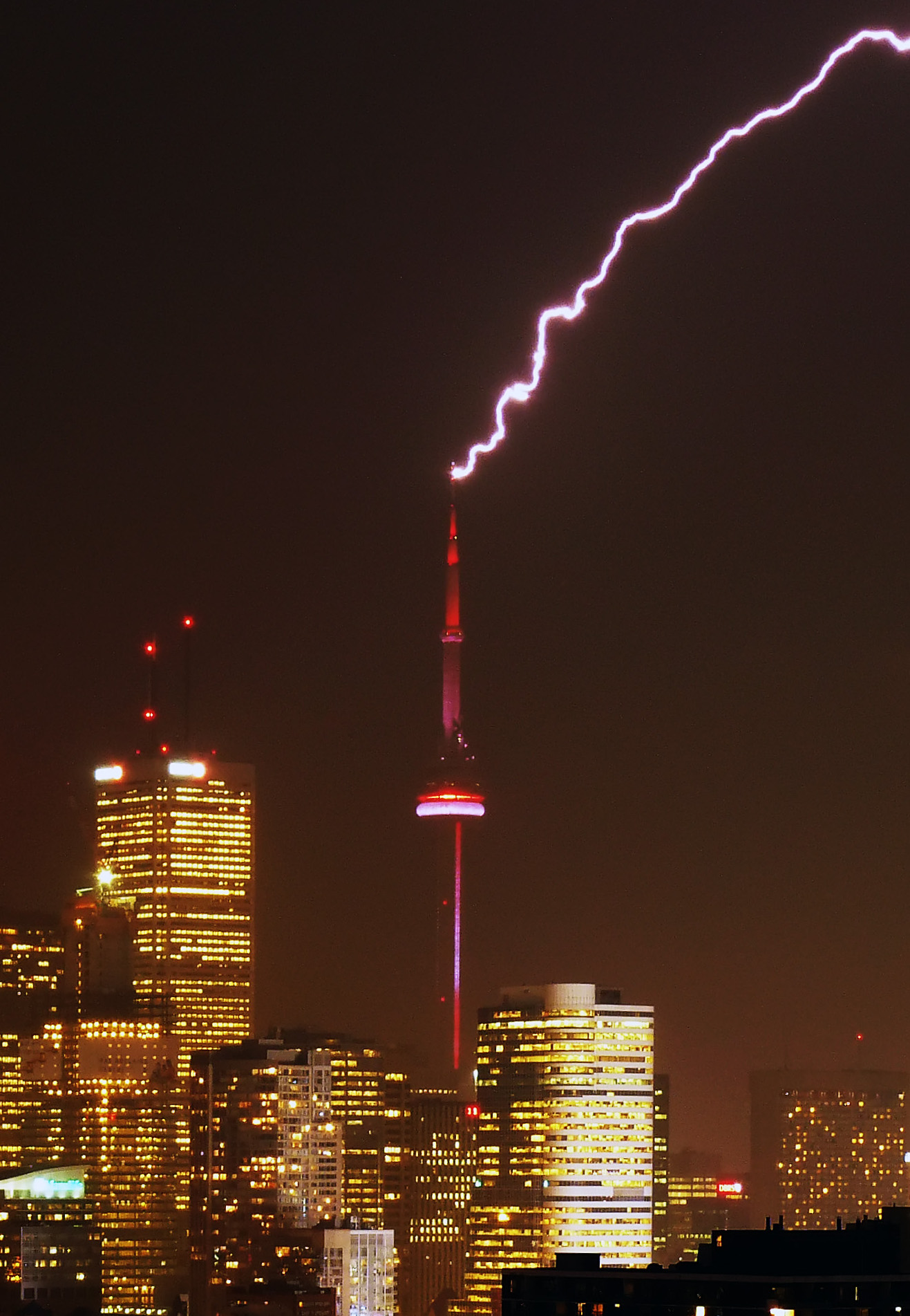 During this night, the CN Tower in Toronto got struck approx. 20 times by lightning. Luckily I caught a few of the strikes. Taken with a Panasonic DMC-FZ8, f5.0/ISO100/8sec, slightly cropped.